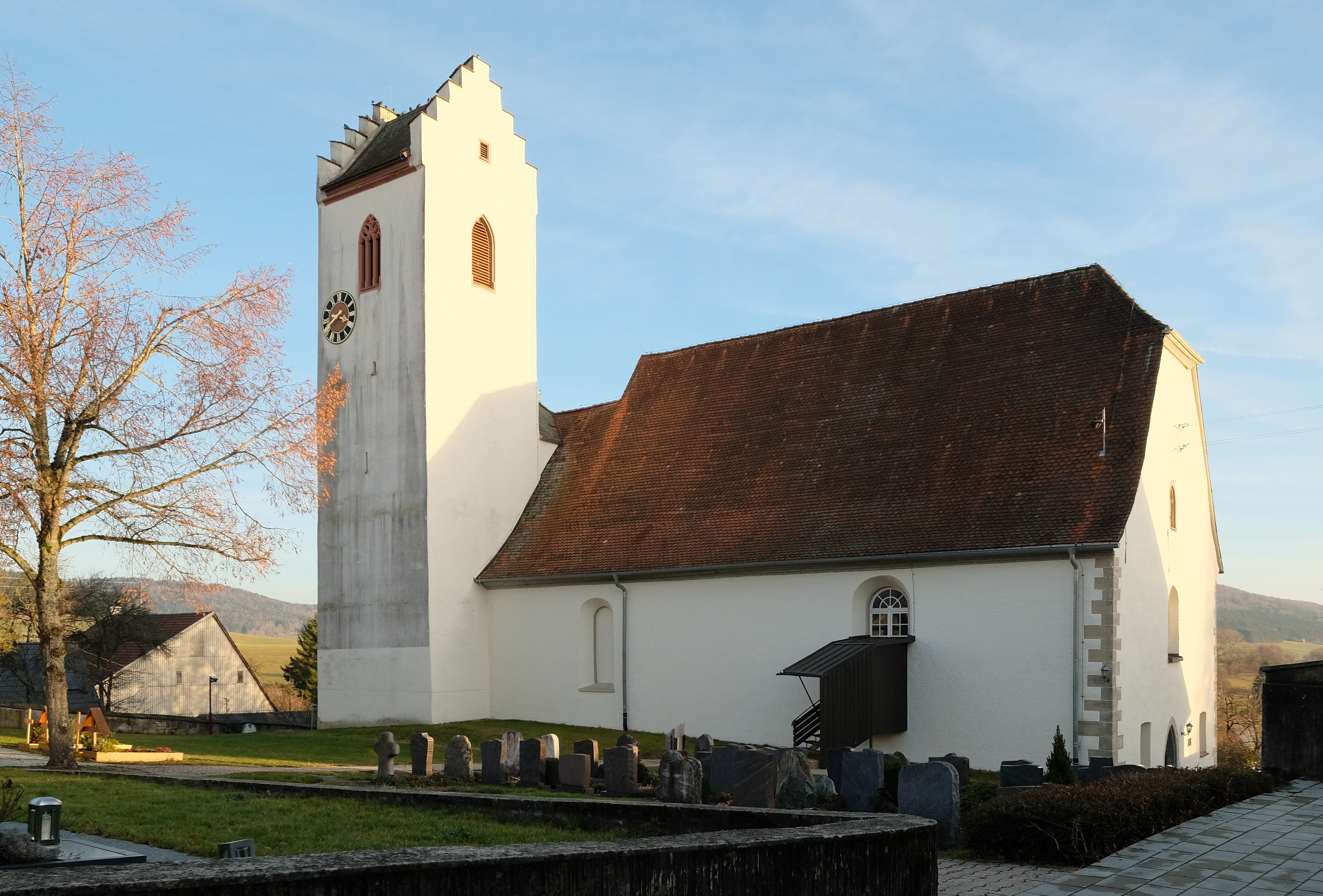 Protestant church, Bad Dürrheim-Öfingen, Schwarzwald-Baar-Kreis, Baden-Württemberg, Germany